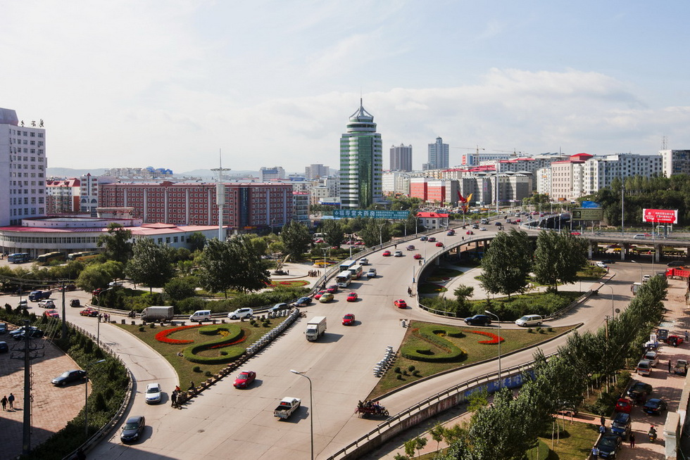 This is the tengfei overpass,a vital communication line in the Jiguan Distinct,the centre of Jixi city.